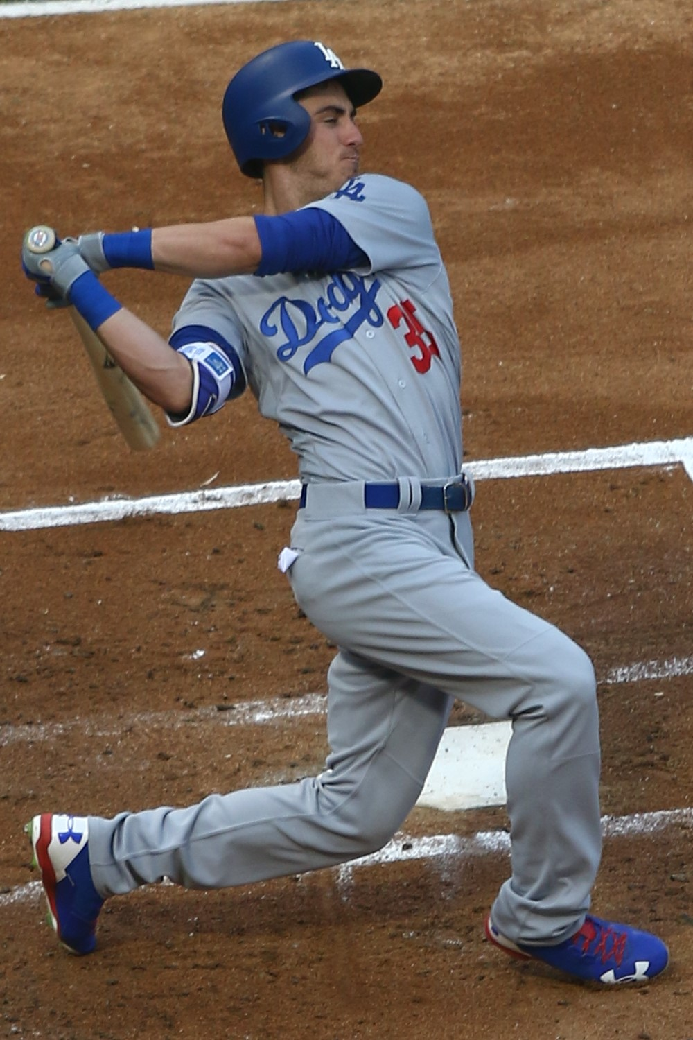 Cody Bellinger for the 2017 Los Angeles Dodgers